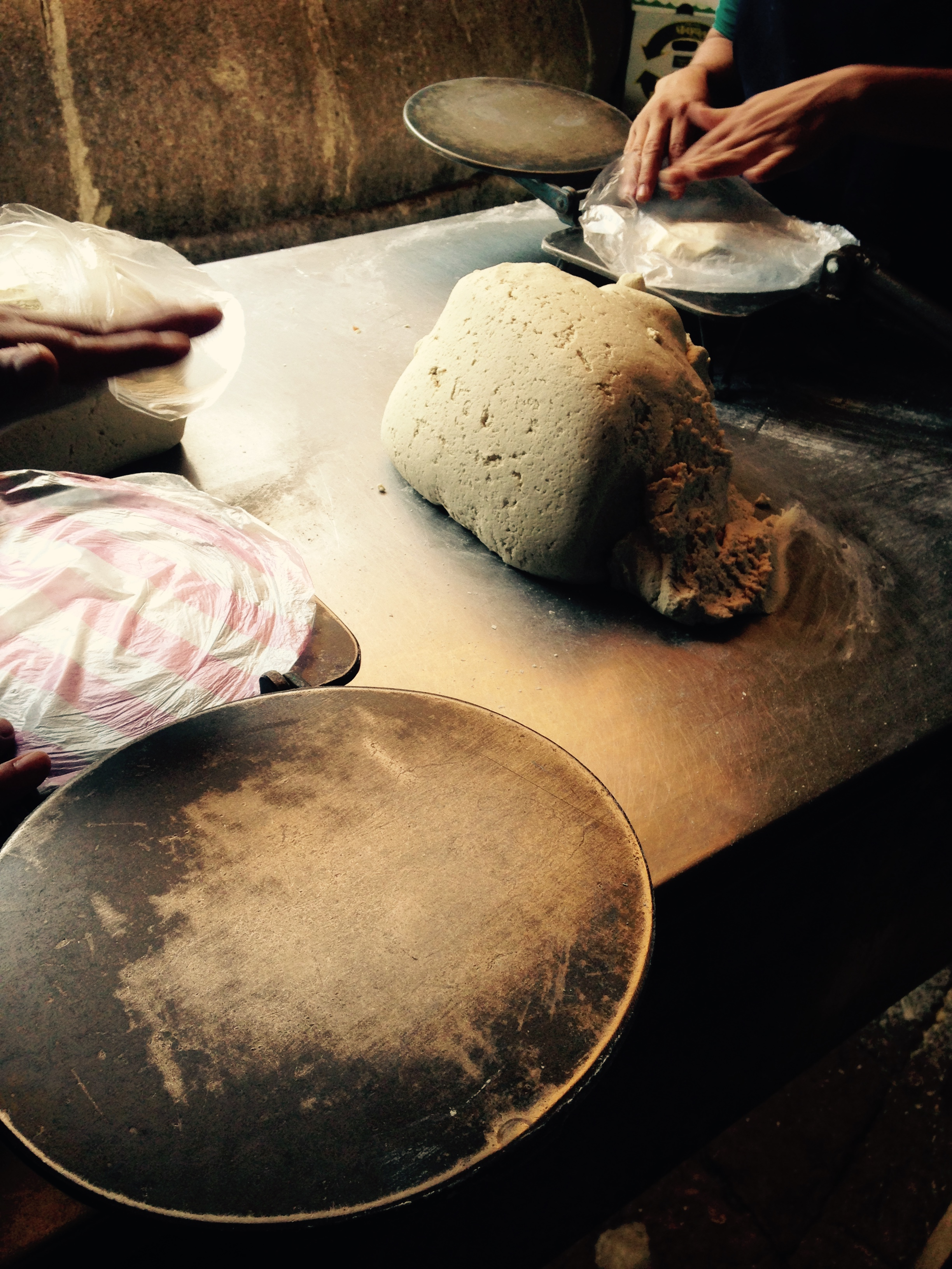 Here we can see the tortilla dough just after the kneading. Photo taken in the Tepoztlán market, México.